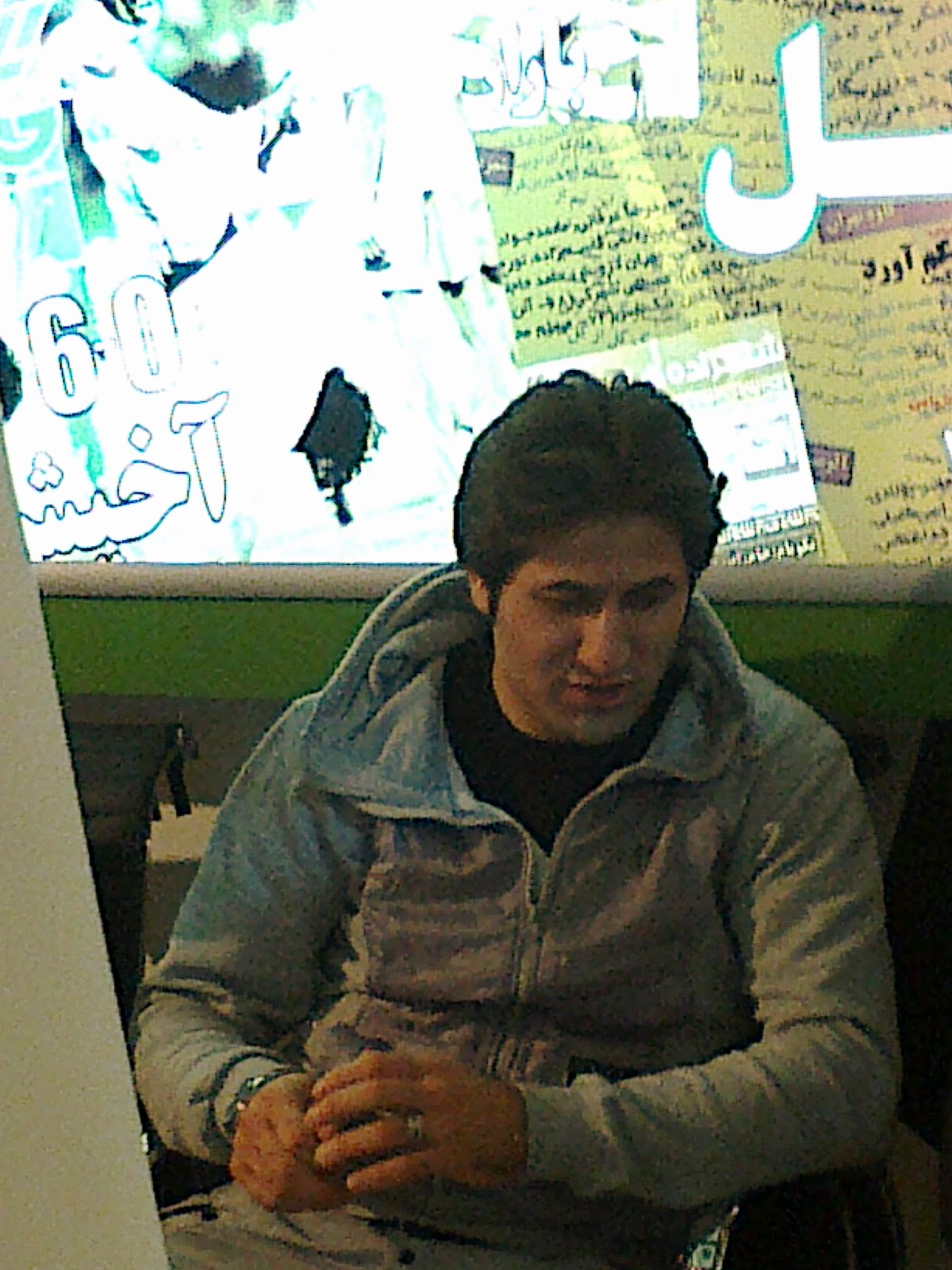 Mostafa Nazari, Iranian International Futsal Player